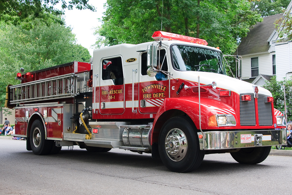 Firetruck from the small town of Townville, Pennsylvania